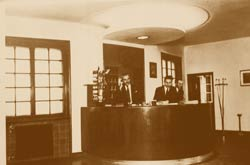 A picture of hotel Astoria reception with hotelier Djura Ninkovic on the phone